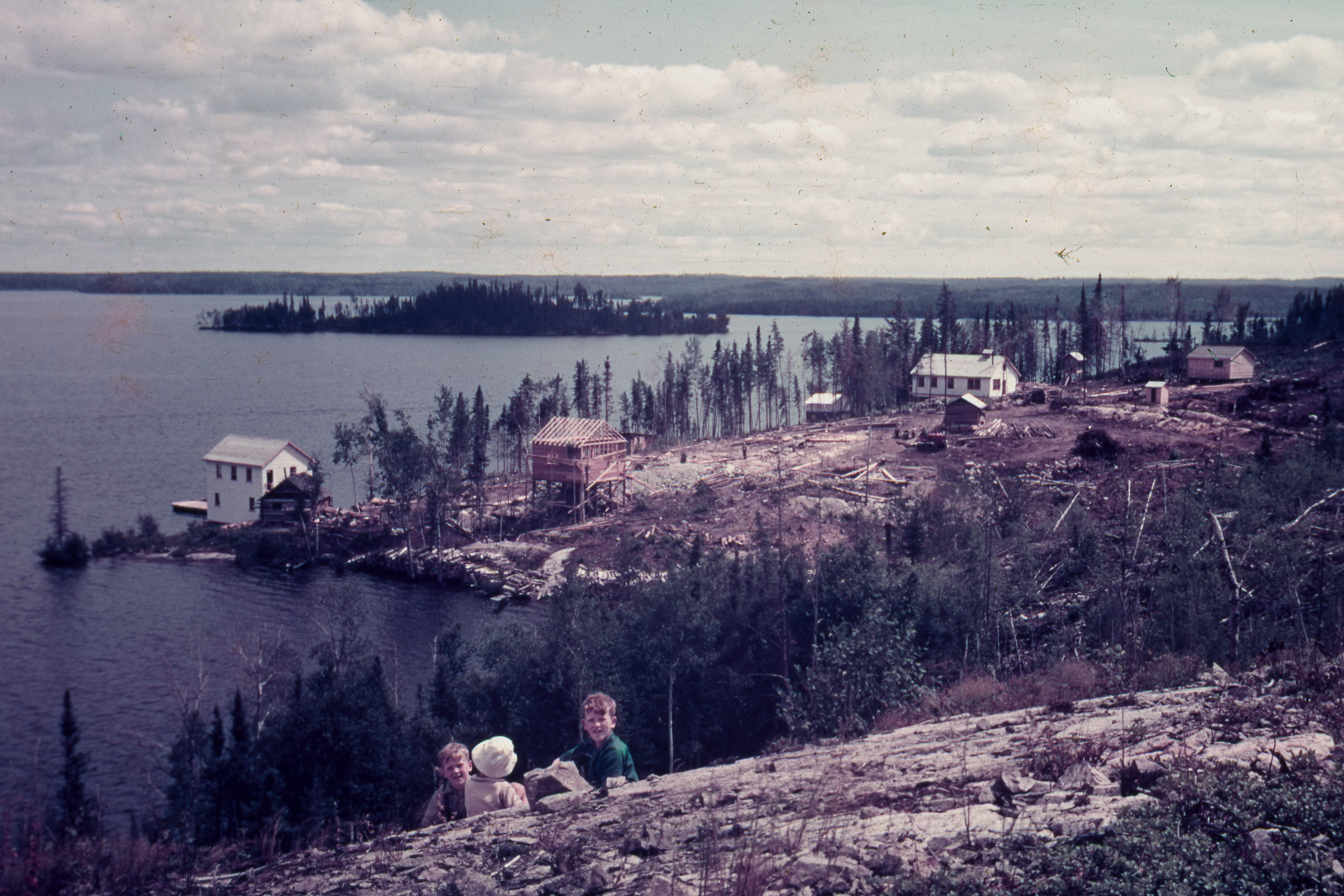 picture of Sanshaw Gold Mine , mine head , White Horse Island , Red Lake , Ontario, Canada ca. 1937